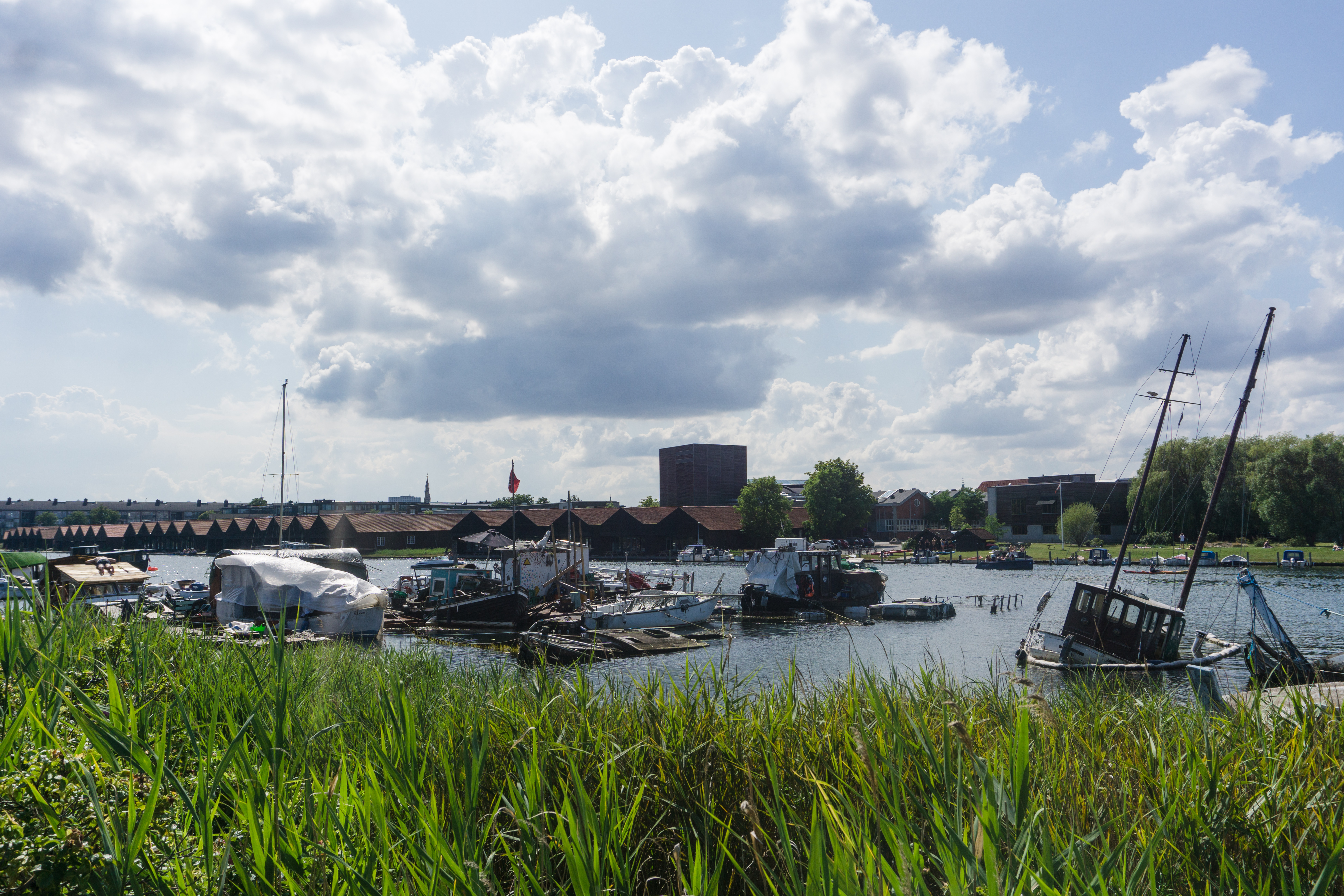 Erdkehlgraven, Copenhagen